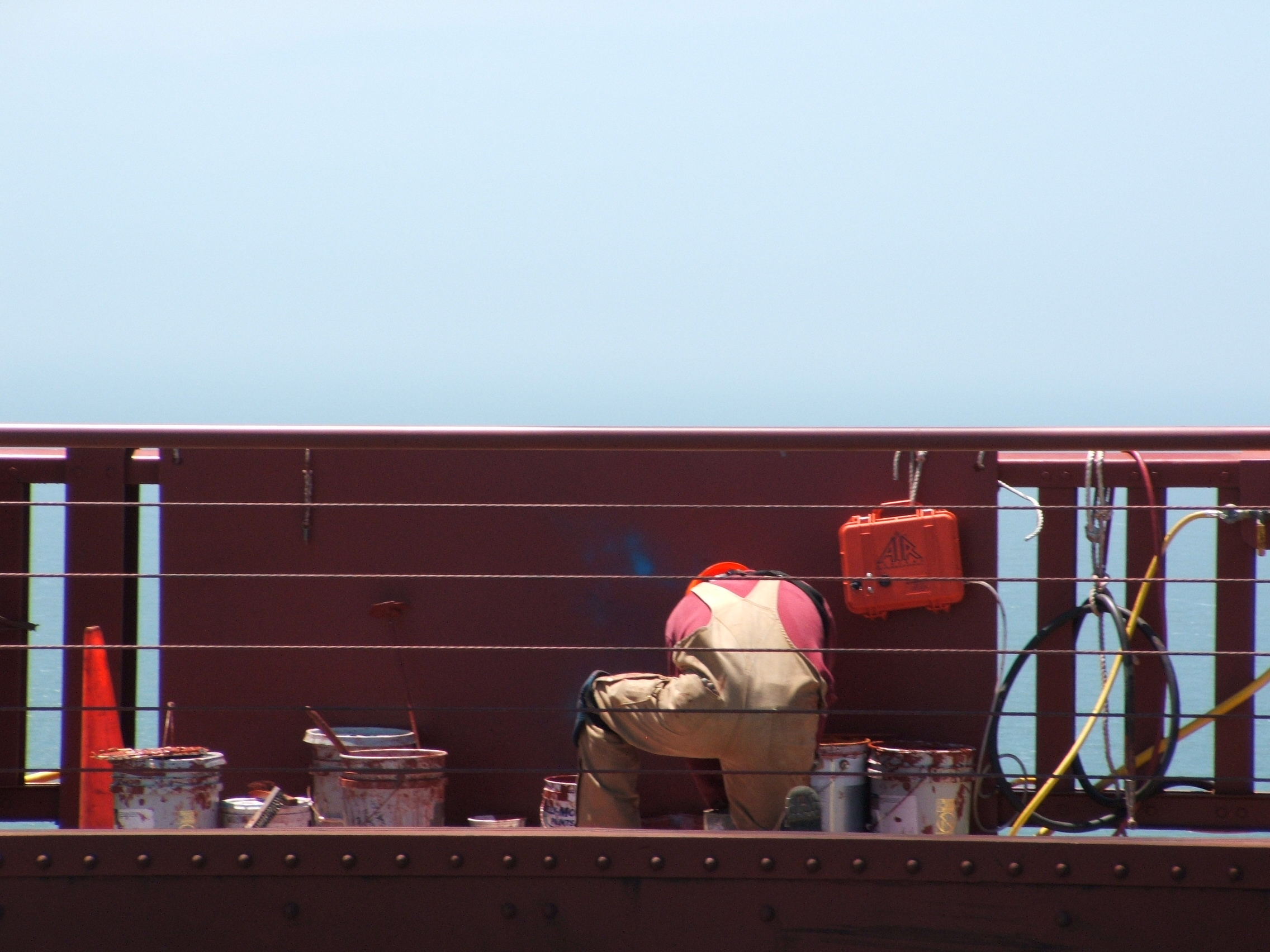 Golden Gate Bridge.